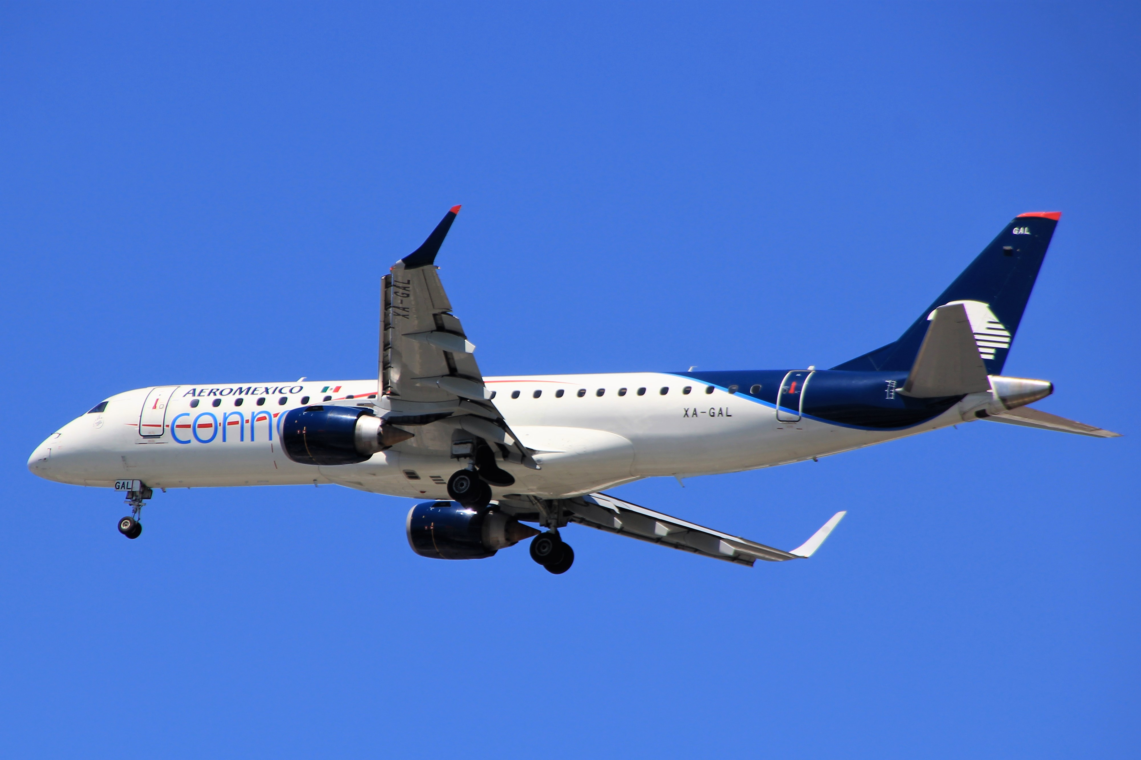 Aeromexico Embraer 190 approaching JFK